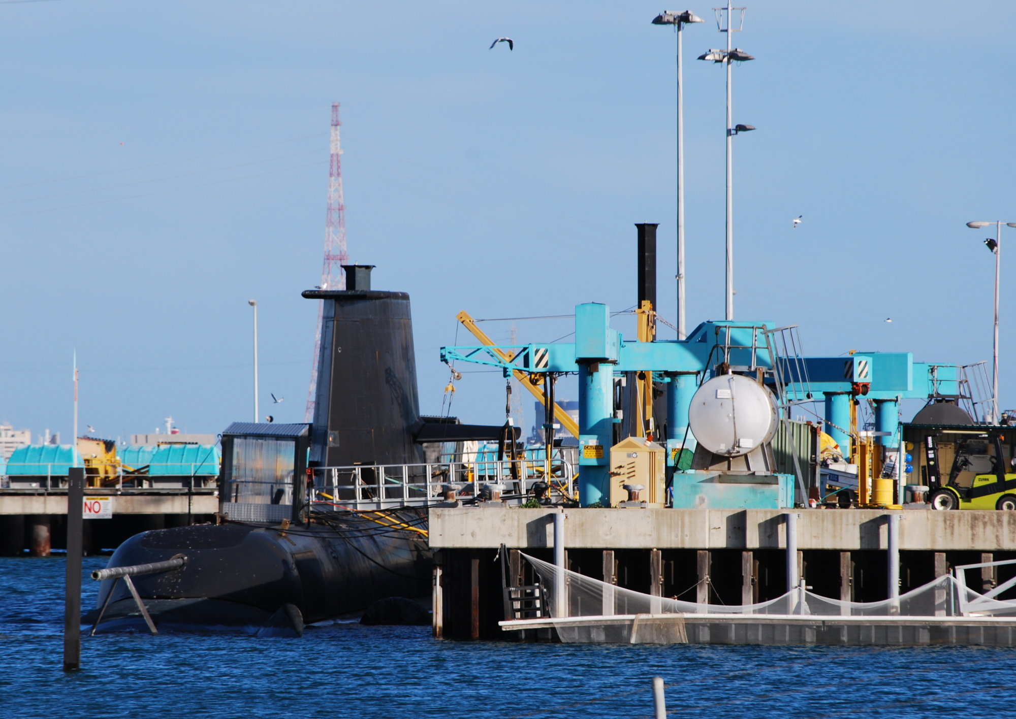 A Collins class submarine in dock at the Australian Submarine Corporation, Adelaide